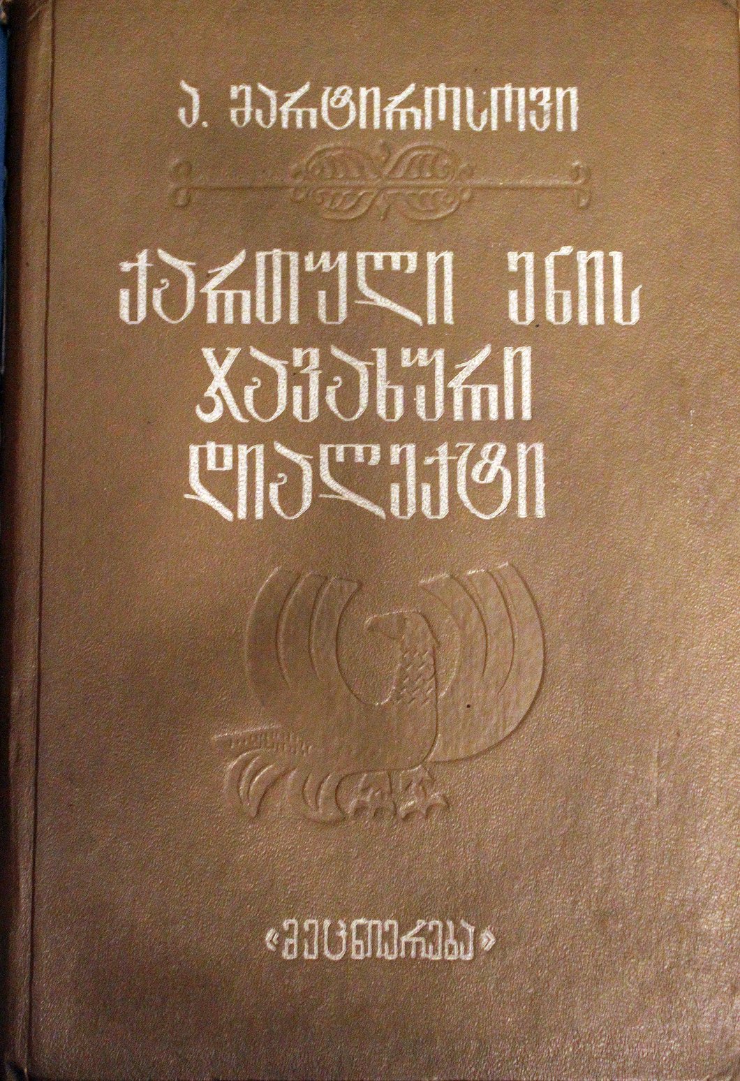 Javakhian Dialect of Georgian Language, A. Martirosov, Tbilisi, Metsniereba, 1984 - Джавахский Диалект Грузинского Языка, A. Мартиросов, Тбилиси, Мецниереба, 1984